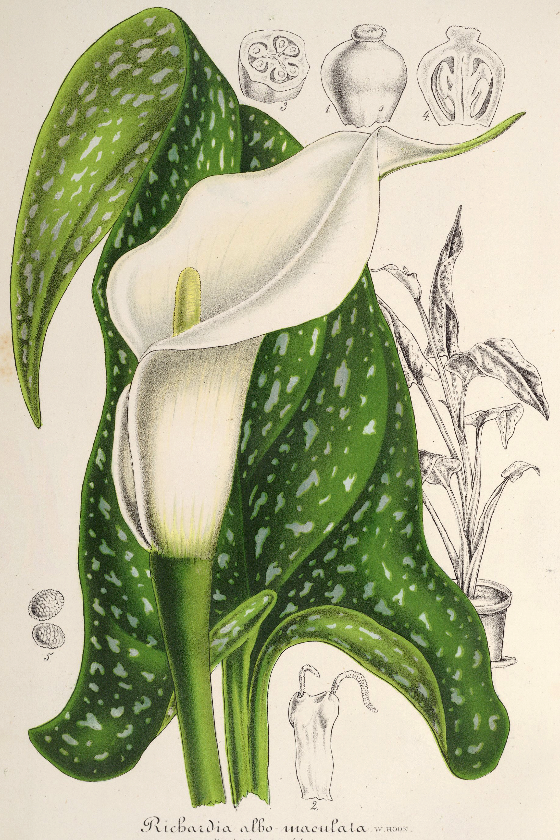 Zantedeschia albomaculata botanical drawing